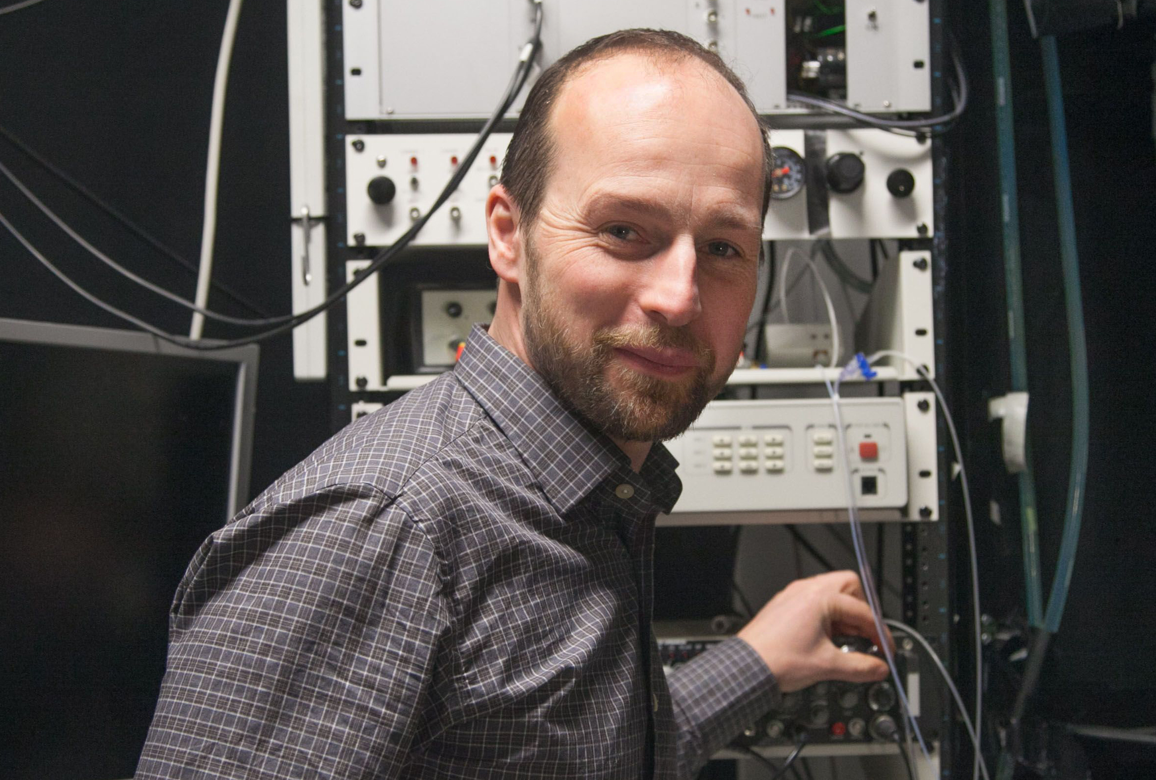 Professor Thomas Mrsic-Flogel